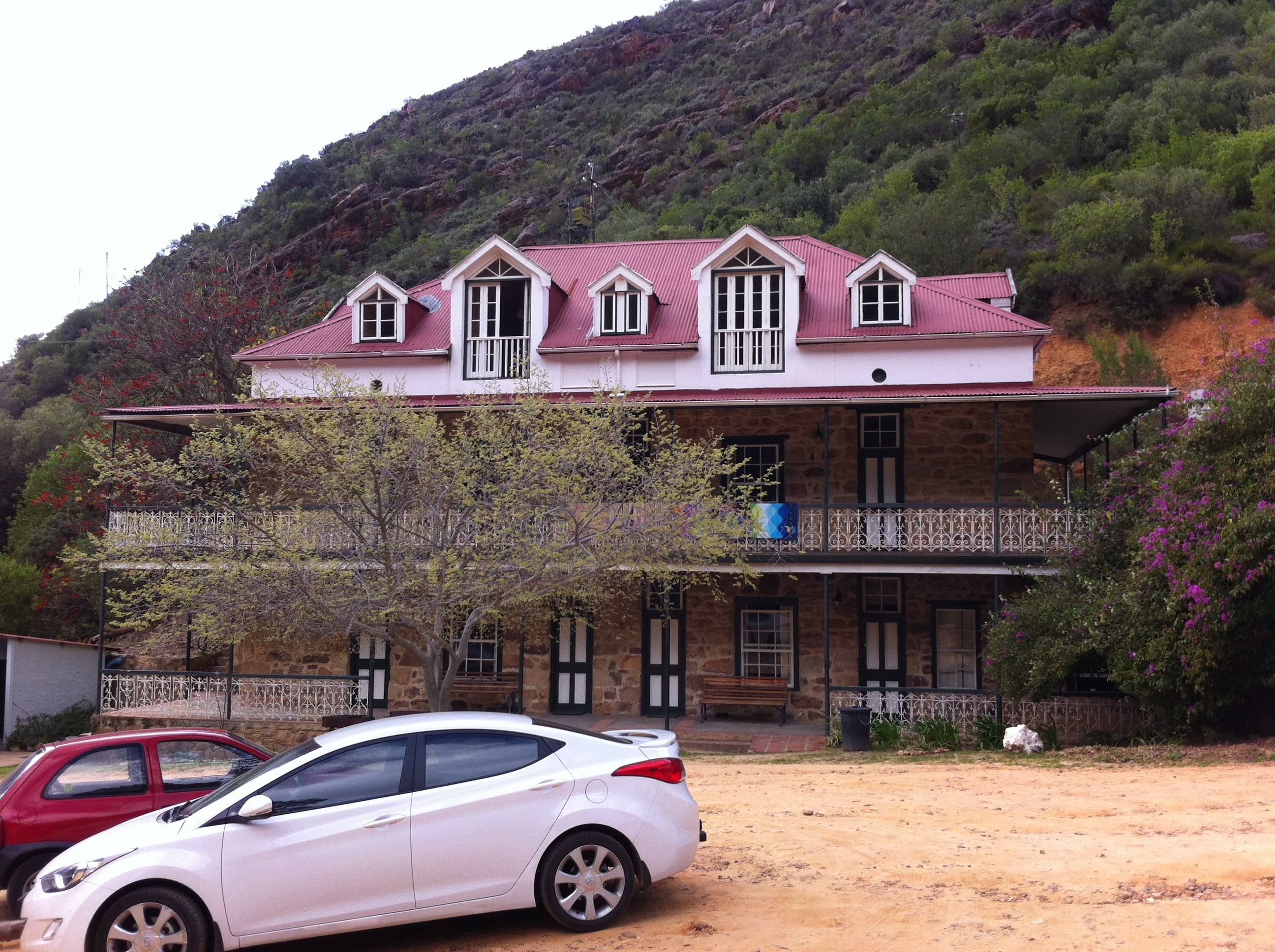 Victorian house at The Baths, near Citrusdal in Olifants River Valley, Western Cape, South Africa.